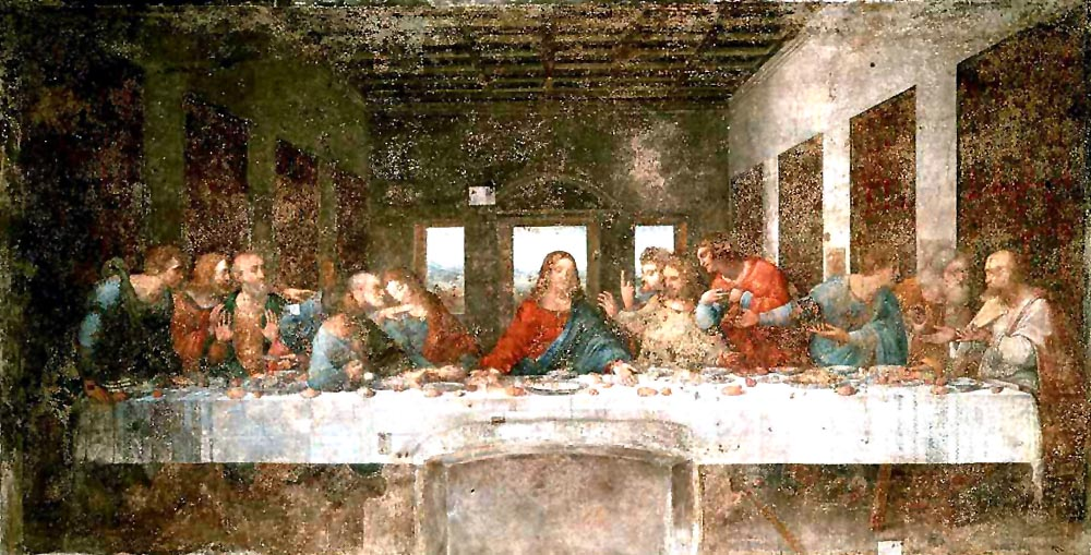 In the seventies Leonardo da Vinci's Last Supper was in a terrible condition.